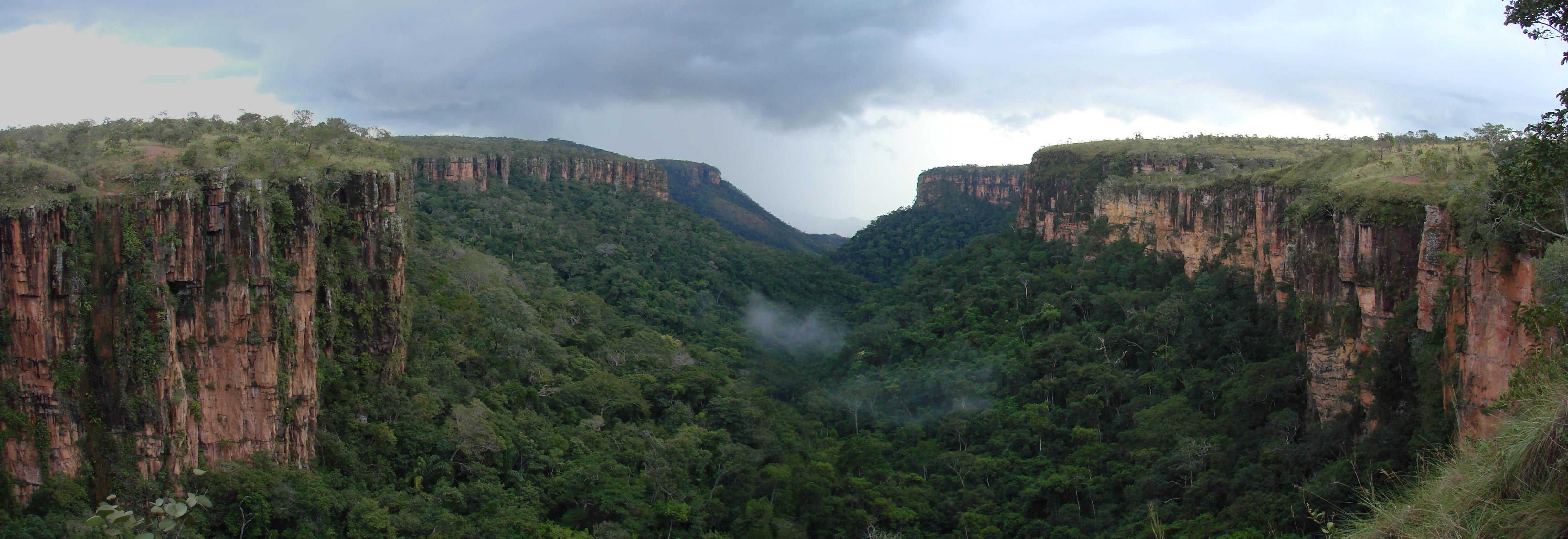 Panorama of the Chapada dos Guimarães National Park